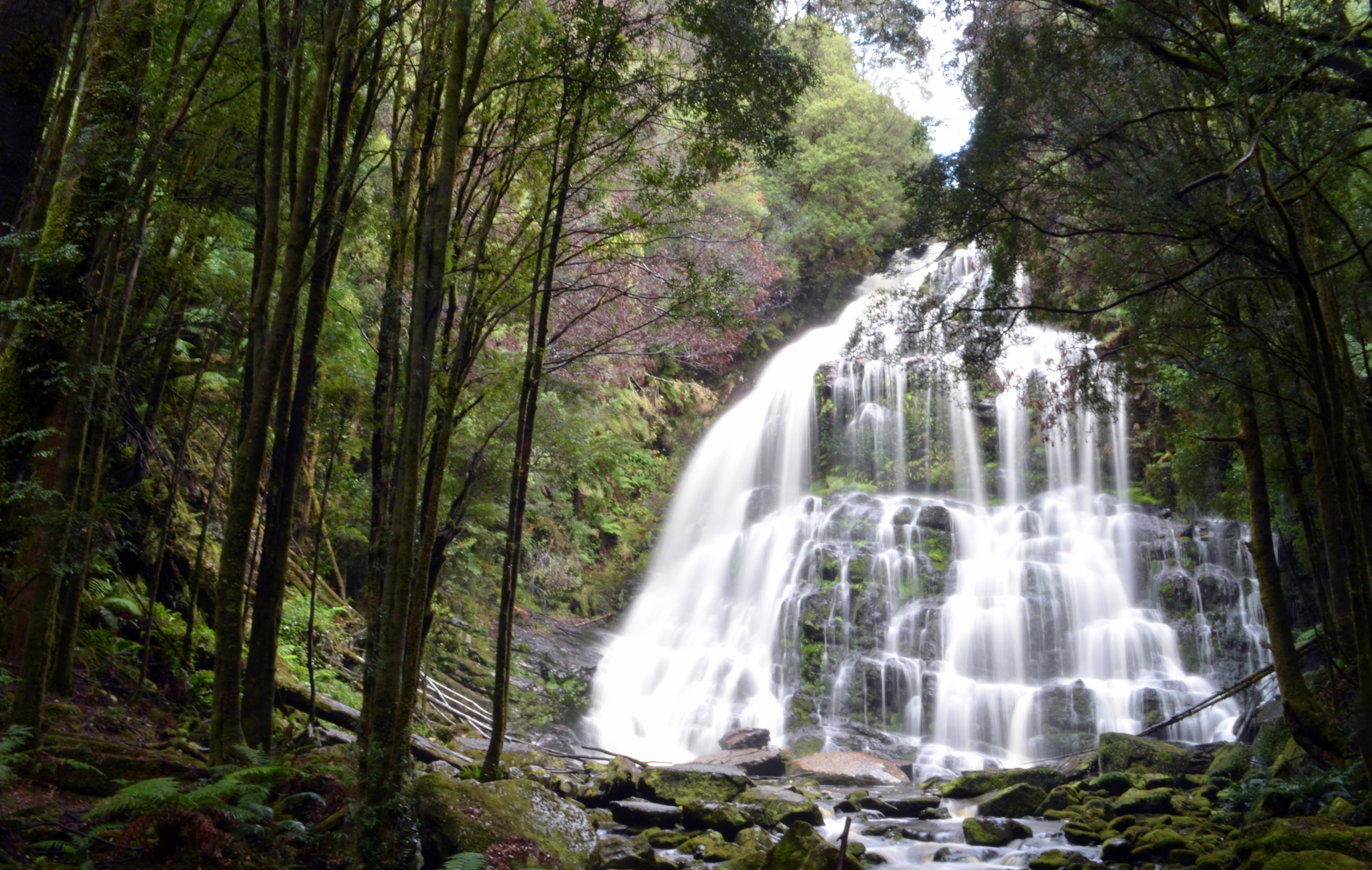 Nelson Falls in Franklin Gordon Wild Rivers National Park, Tasmania